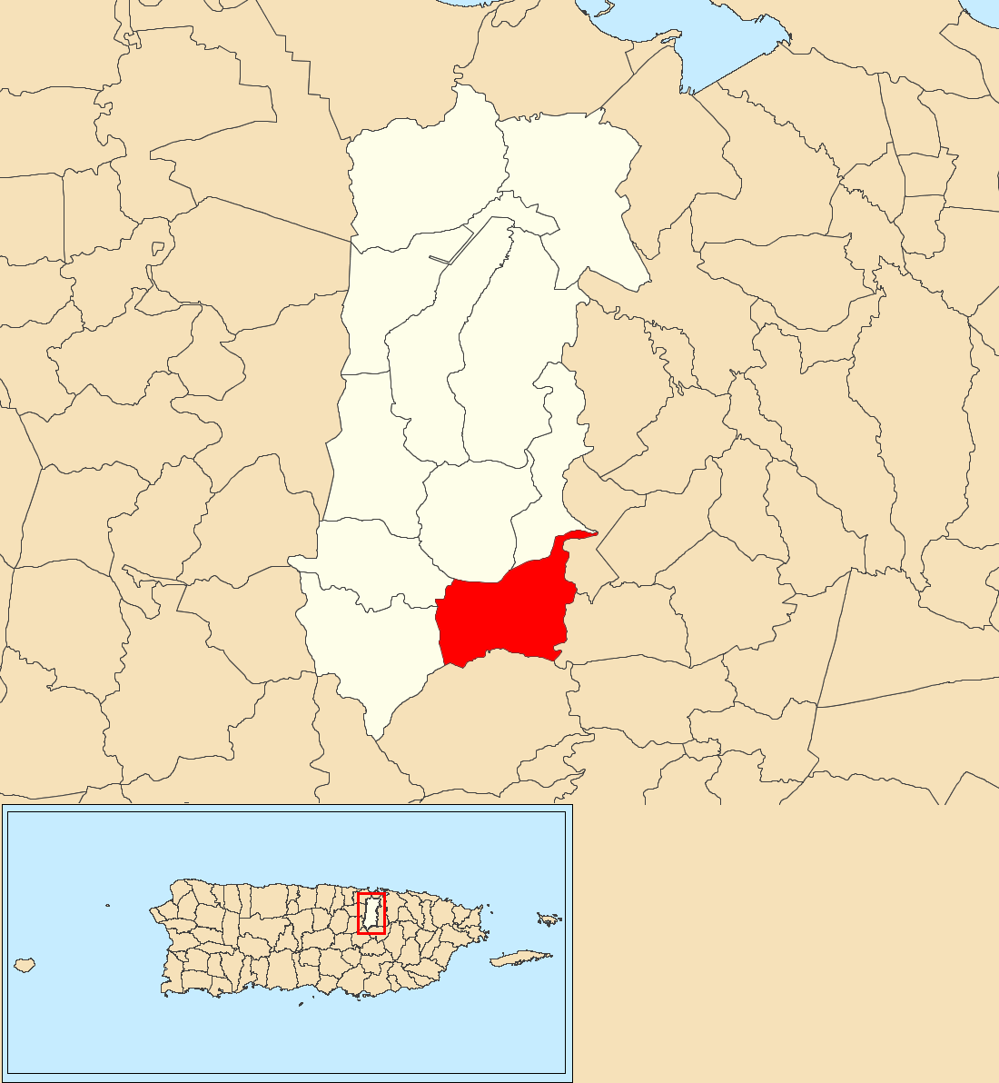 Guaraguao Arriba, Bayamón, Puerto Rico locator map